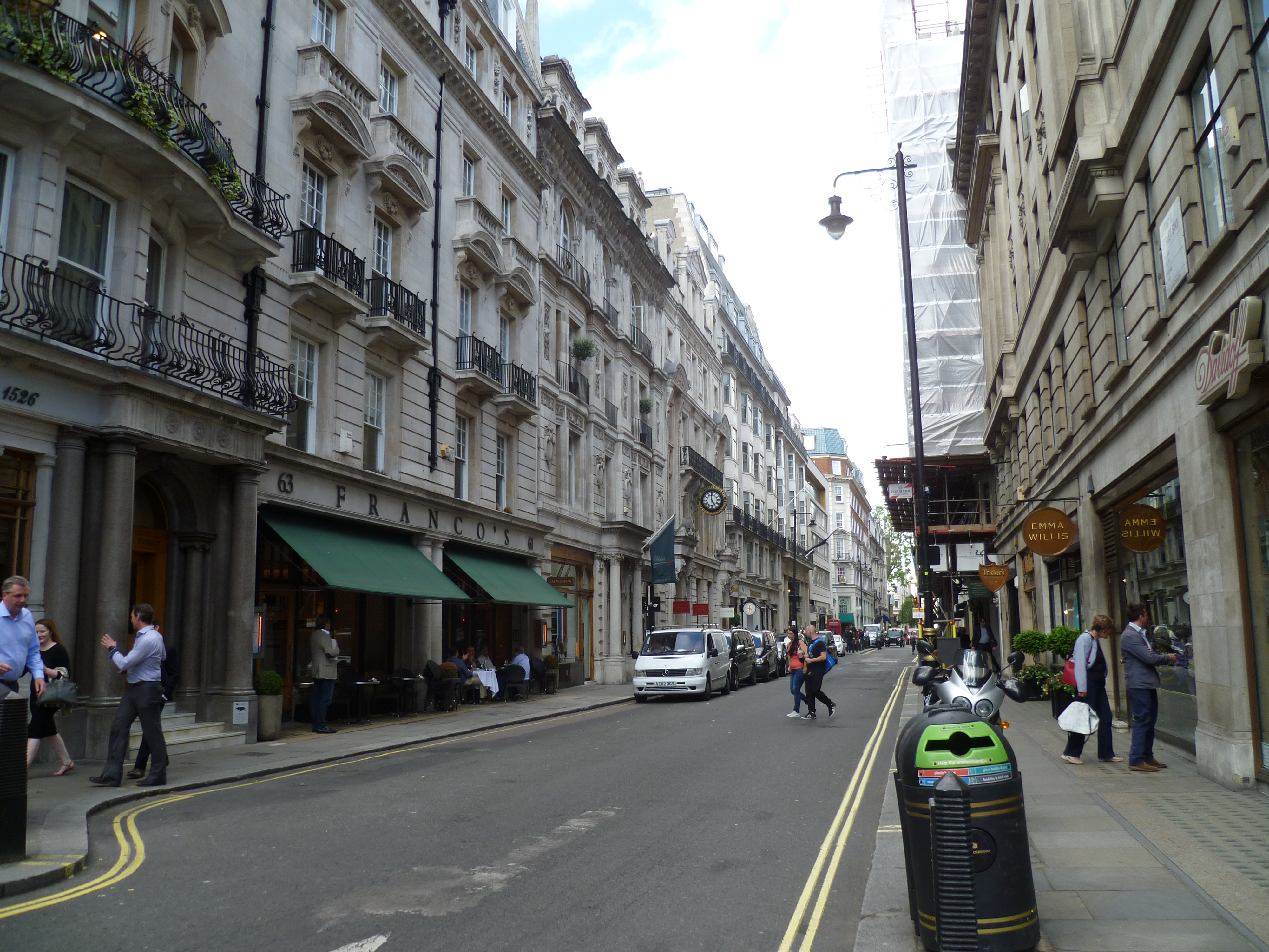 London